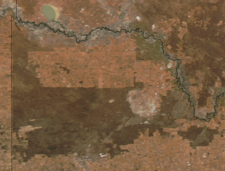 Satellite view of Murray-Sunset National Park (left) and Hattah-Kulkyne National Park (right) in Victoria. The light-colored roughly circular area between the two is the Raak Plain Boinka. The Murray river runs from southeast to northwest (left/top).